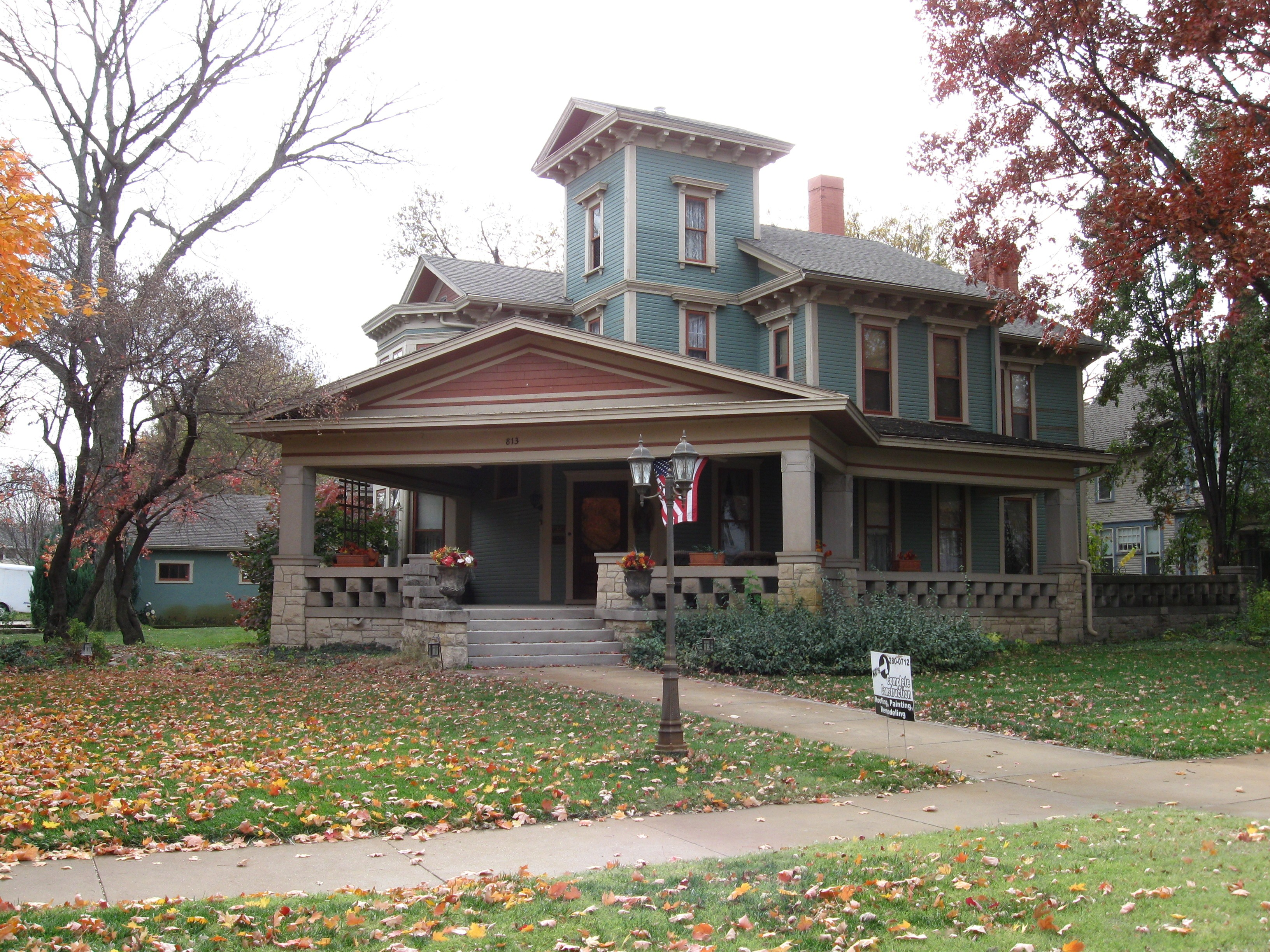 The Mead-Rogers House, 813 NW 3rd St. in Abilene, KS.